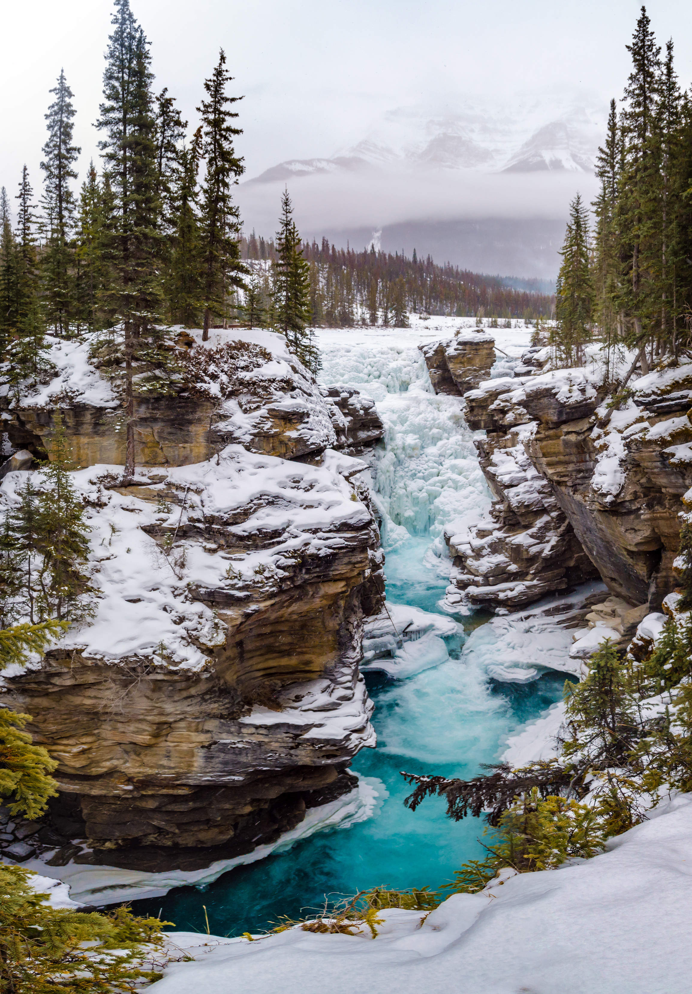 Athabasca Falls in snowy Jasper National Park, Alberta, Canada